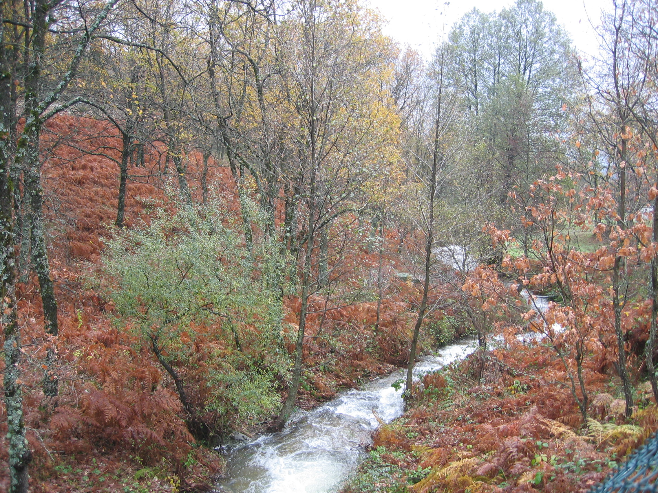 Guadalix River, in Miraflores de la Sierra, Community of Madrid, Spain